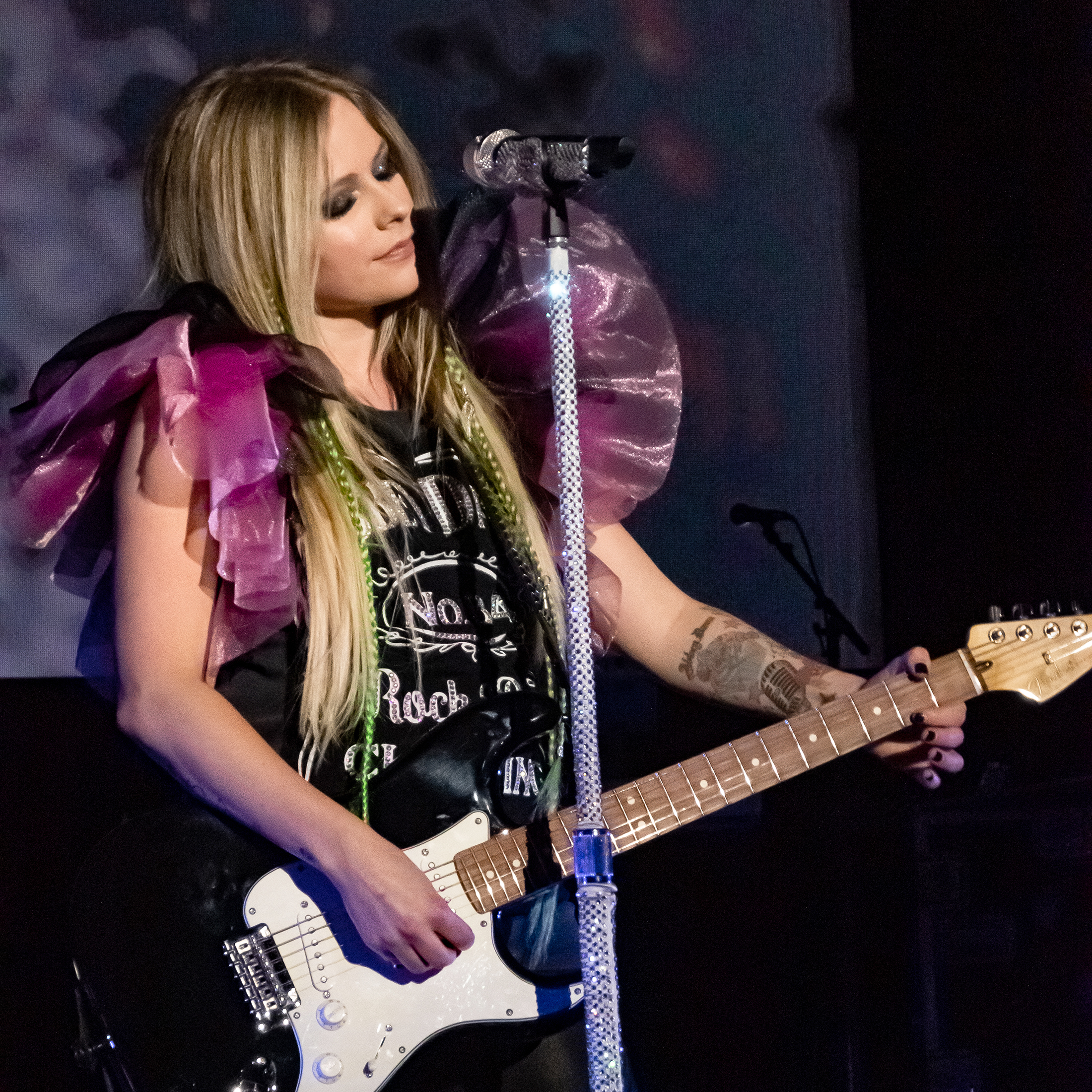 Avril Lavigne performing live at The Greek Theatre in Los Angeles on 09/18/2019.